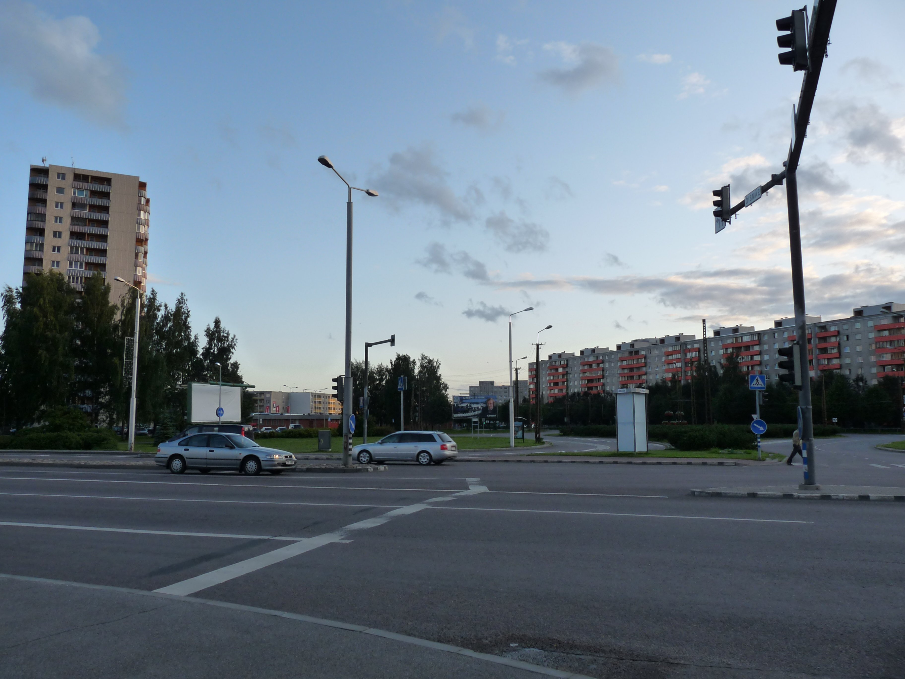 Ehitajate tee - Õismäe tee intersection in Haabersti